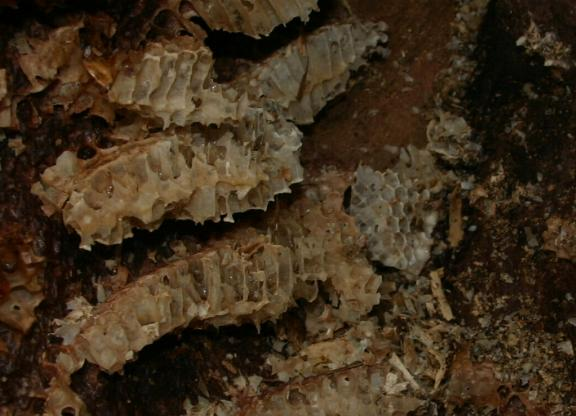 This bees' nest was displayed when the tree broke down during a winter storm. Please notice the amount of propolis used om the surrounding wood.